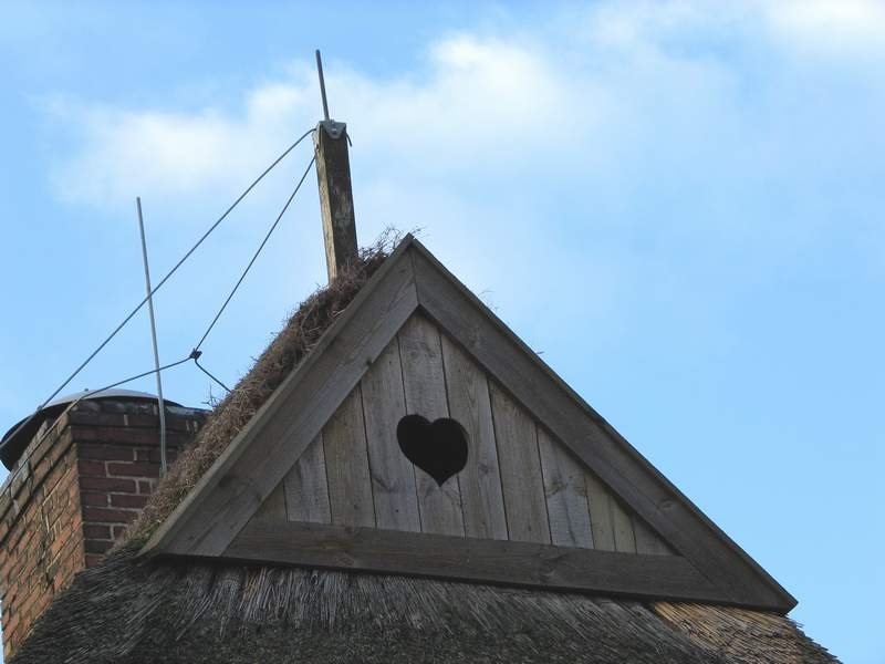 Owl hole in a thatched roof. In Eckernförde on National Highway 76, at the restaurant Kiek ut (overlooking the Baltic Sea).